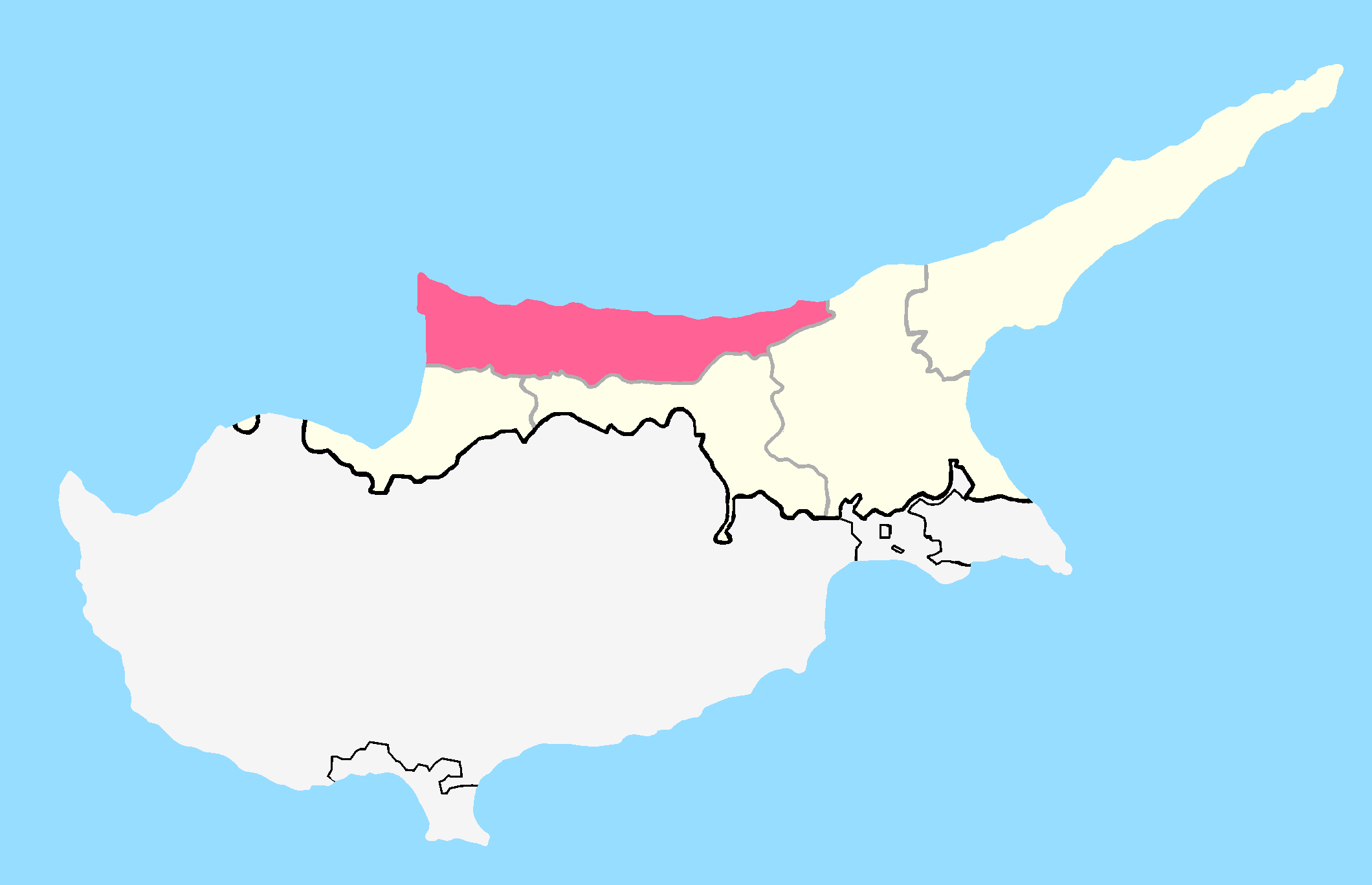 Girne District Map